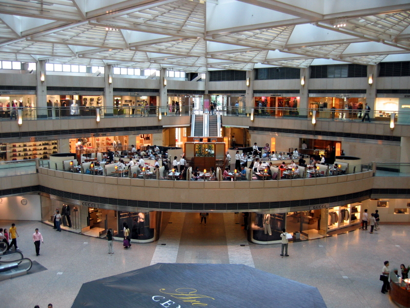 Author:WiNG@NTPHK Details:The Landmark, taken at Central